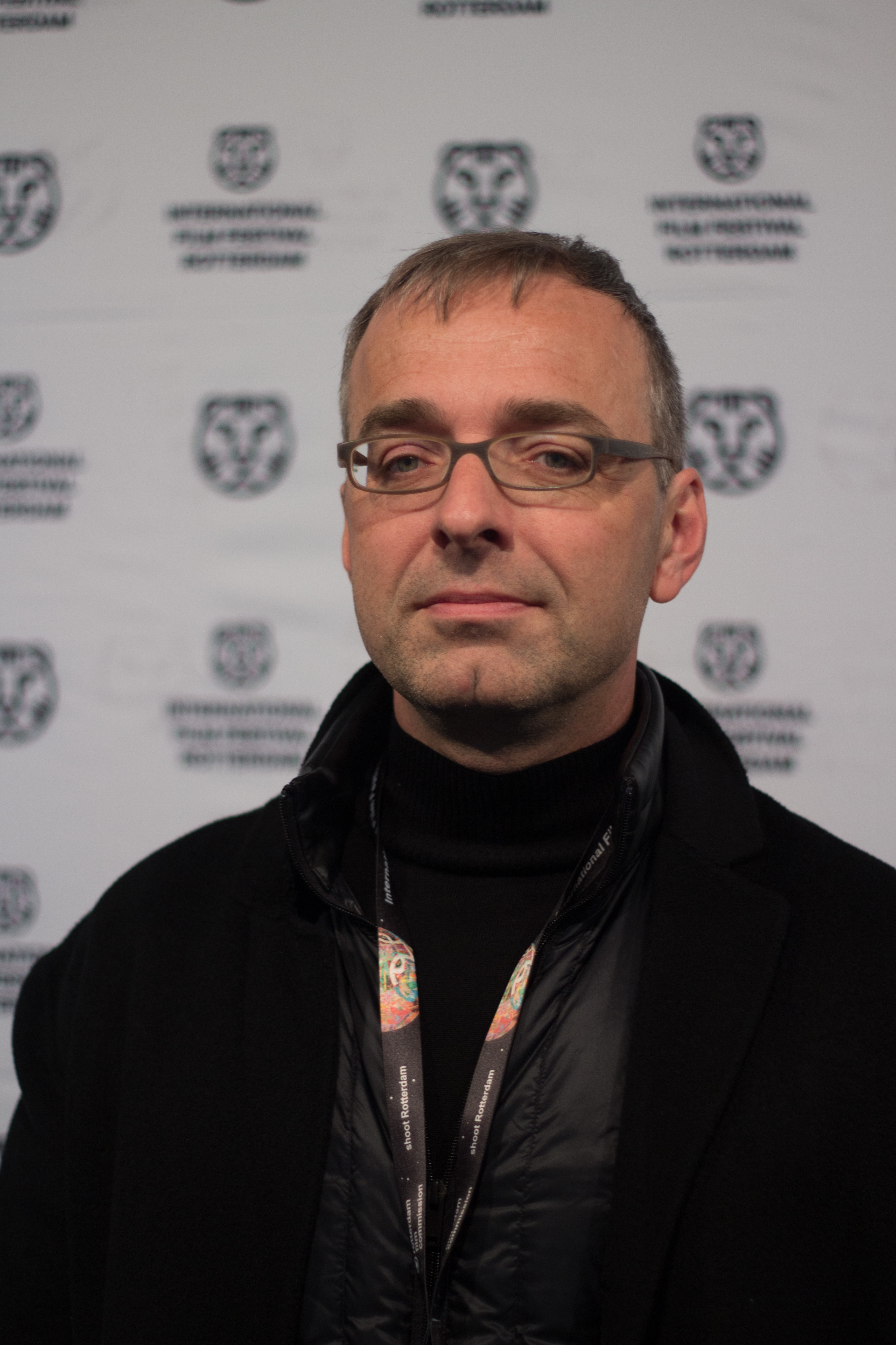 David Claerbout at the premiere of Die reine Nortwend